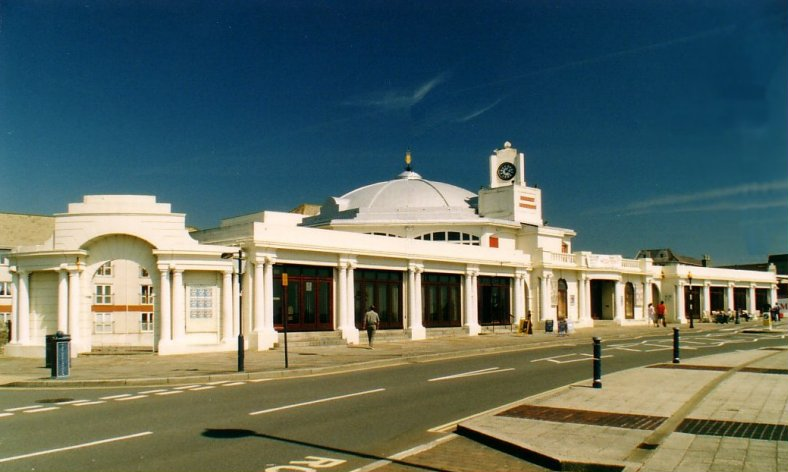 The Grand Pavilion Porthcawl Photographed by Mark Phillips Summer 2004